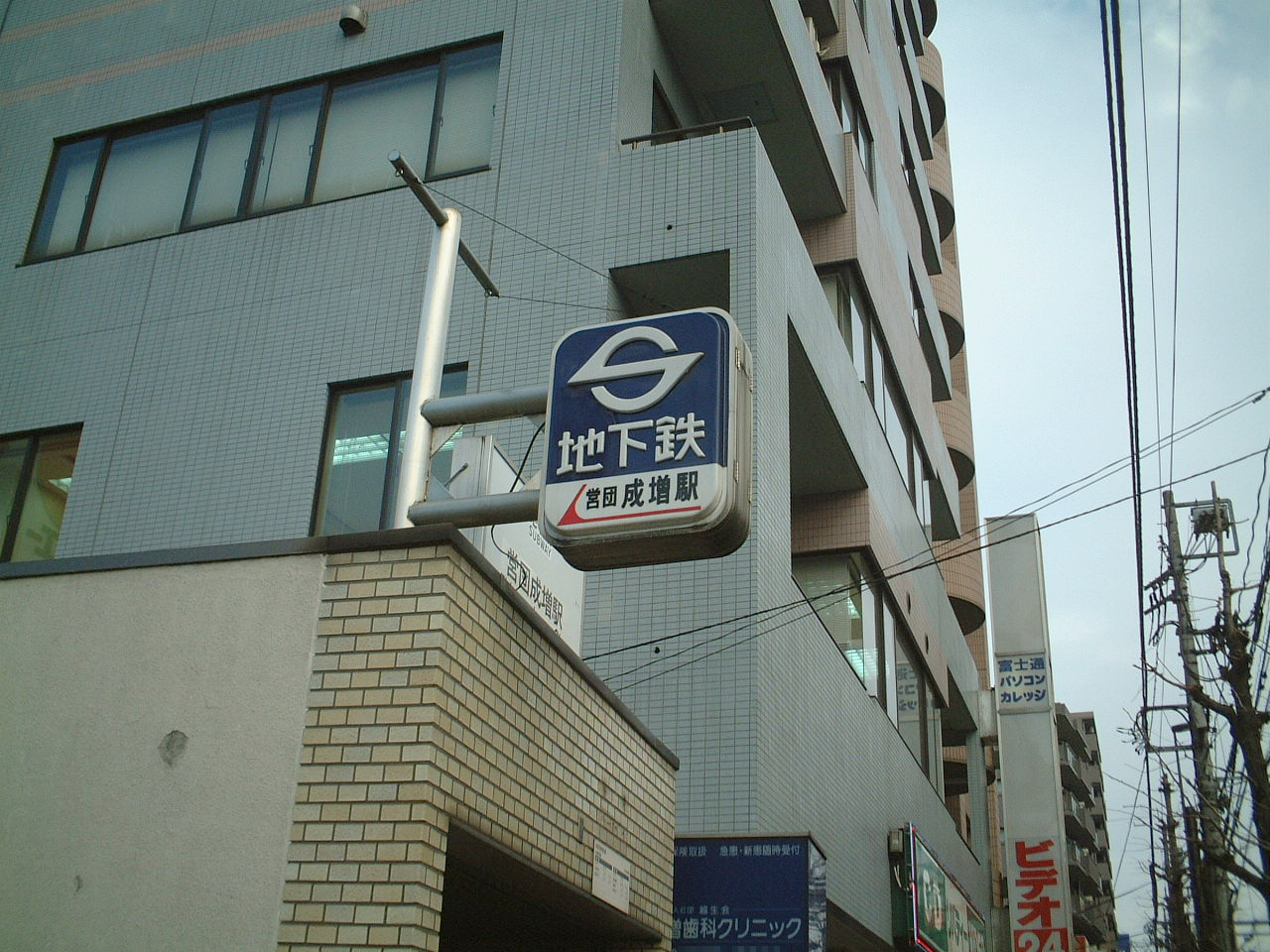 Eidan-narimasu (current name: Chikatetsu-narimasu) station entrance No.2, Taken on February 22, 2004. Itabashi, Tokyo, Japan